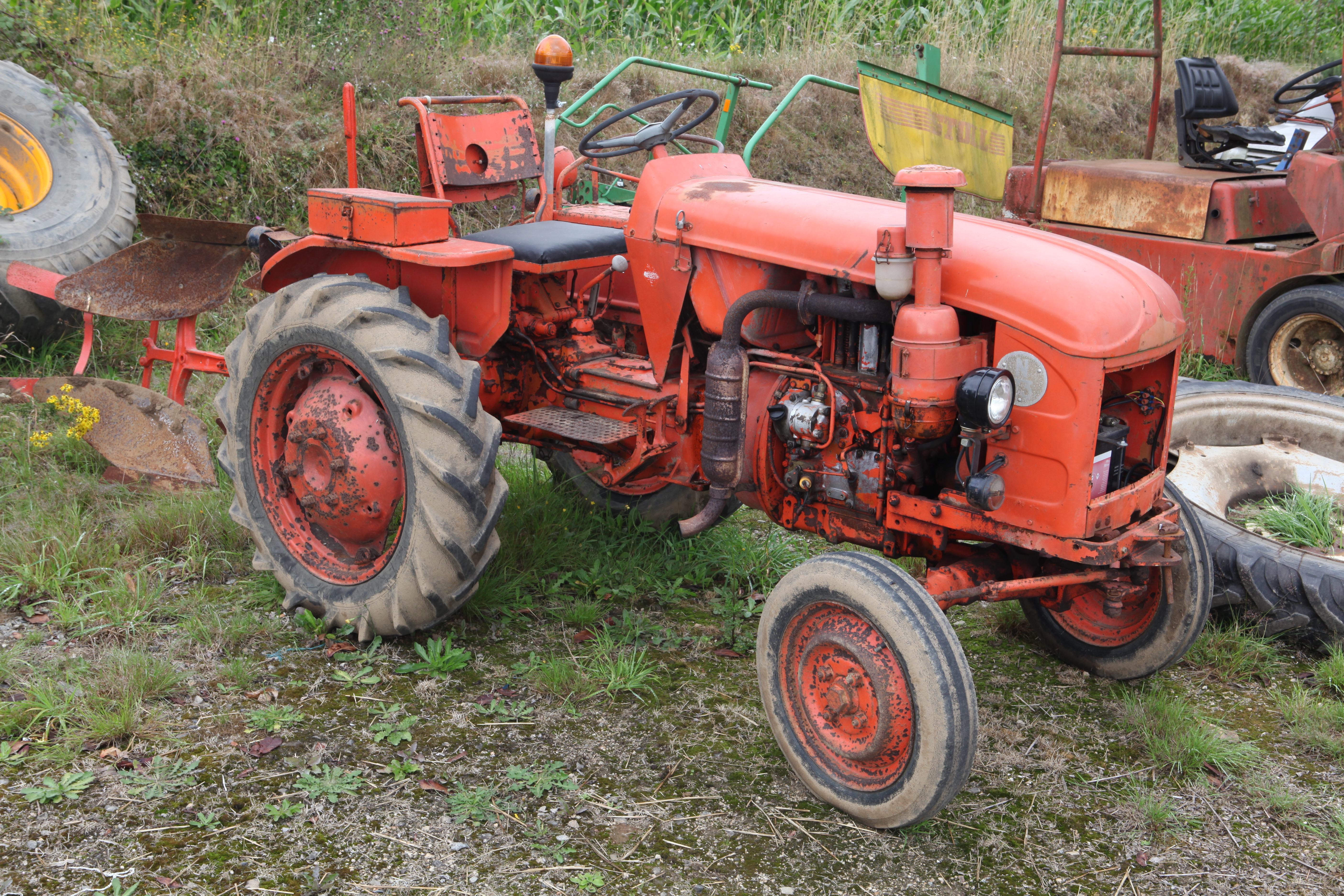 Renault N 73 tractor